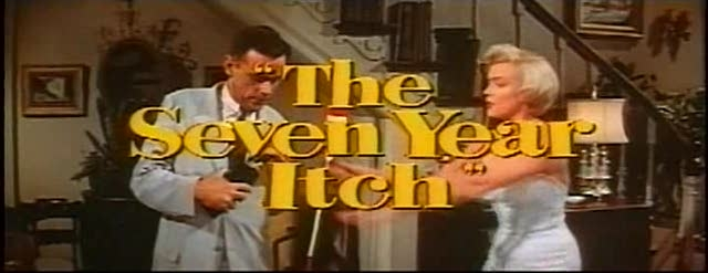 The opening title from the theatrical trailer of the 1955 film The Seven Year Itch directed by Billy Wilder.